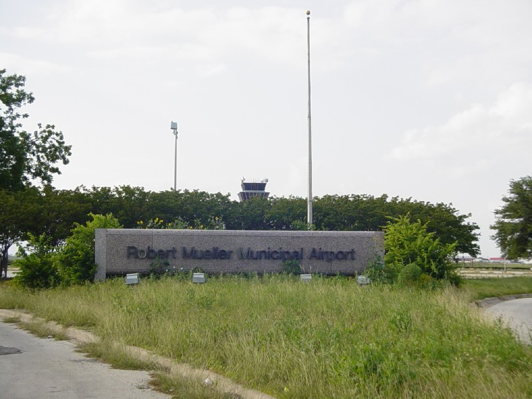 Original airport sign of Robert Mueller Municipal Airport